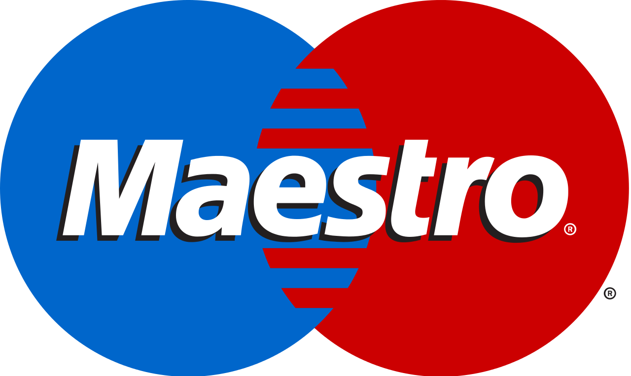 Maestro (Debit Card)